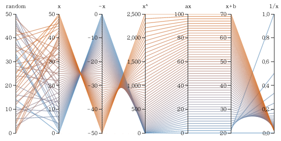 Representative sample for parallel coordinates. With x at the second position. x ⇔ random : lines crossing all around forming a messy net = no specific relationship. x ⇔ -x : lines crossings around a given point = negative relationship. x ⇔ x^ (x²): lines somewhat parallel with increasing gaps = positive relationship (correlation), with exponential property x ⇔ ax (2x): lines mostly parallel with exactly similar gaps = positive relationship (correlation), with exactly linear property x ⇔ x+b : lines mostly parallel with exactly similar gaps and different values in axis = positive relationship (correlation), with exactly linear property, plus translation x ⇔ 1/x : lines somewhat converging with decreasing gaps = negative relationship (invert), with exponential property